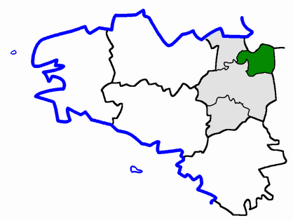 Map for localisazion of arrondissements of Brittany, in France